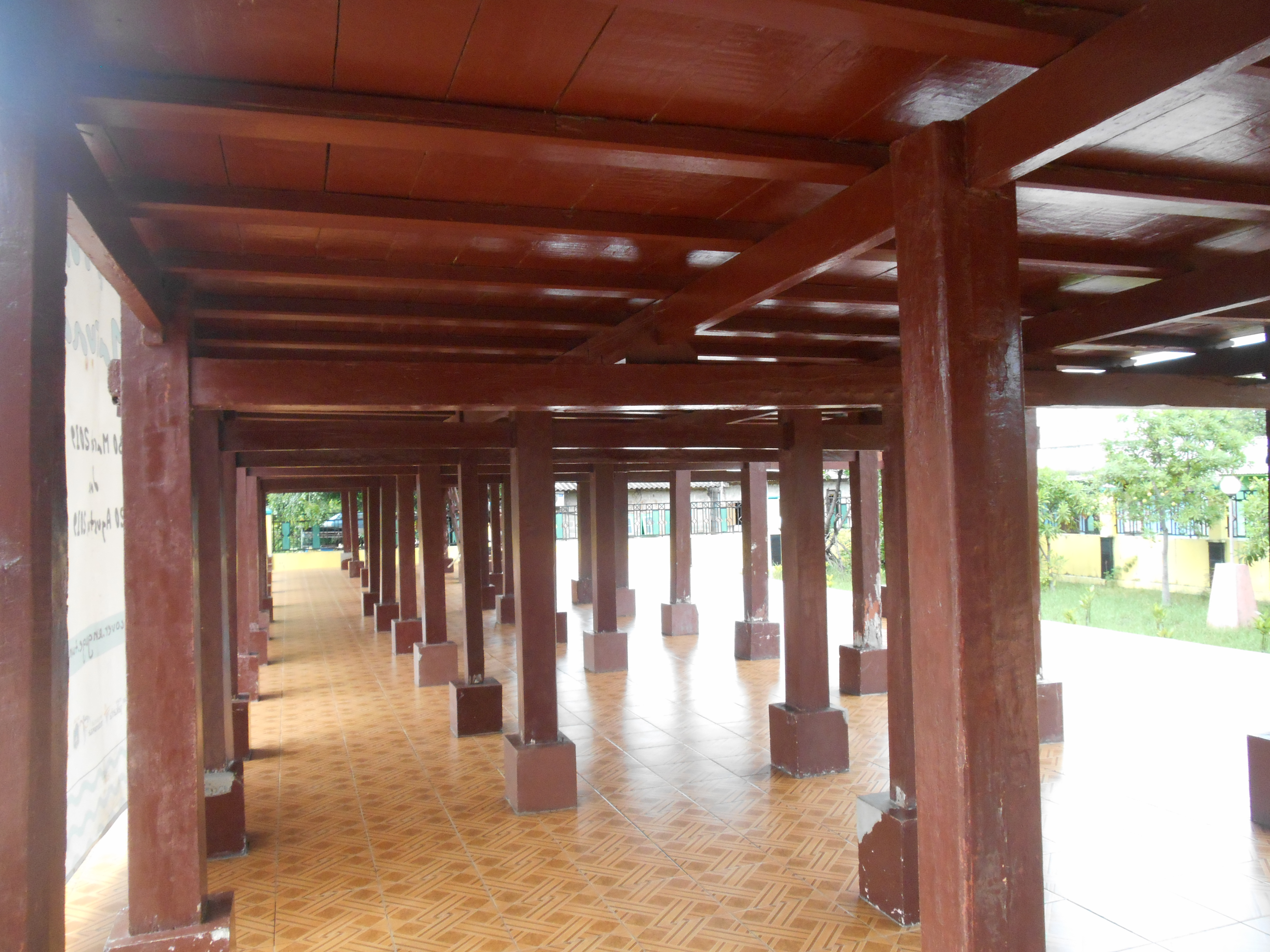 Tiang pondasi pada Rumah Tinggi Marunda atau Rumah si Pitung